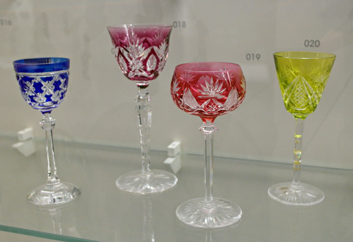 Coloured crystal glasses produced by Val Saint-Lambert at the beginning of the 20th century. Former collection of the Musée du verre, now Grand Curtius, Liège, Belgium.